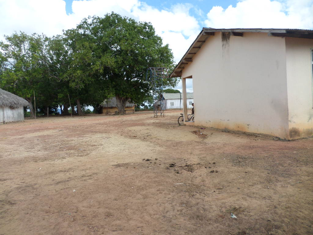 Indigenous Village Marupá